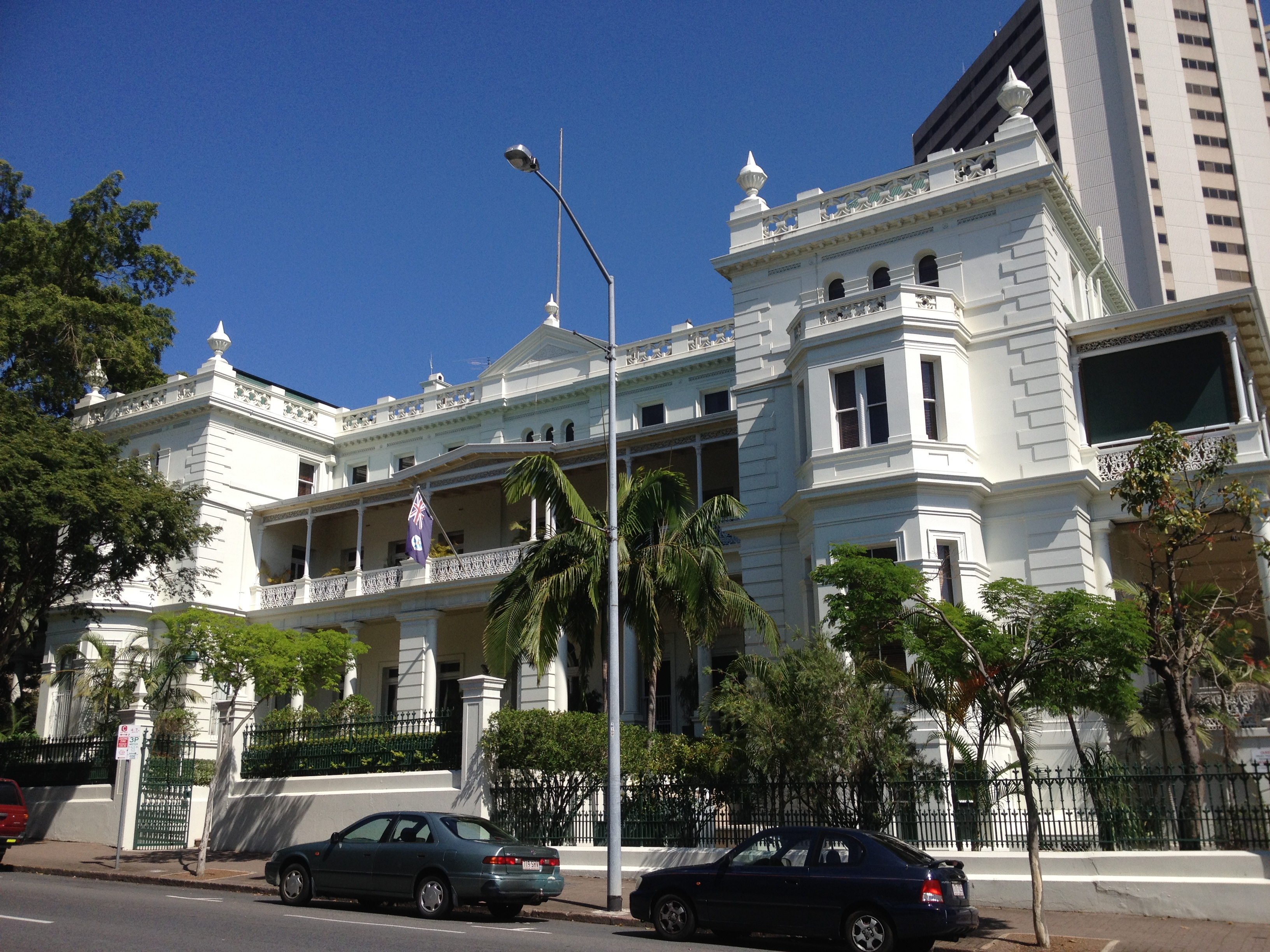 Queensland Club, corner of George and Alice Streets, Brisbane